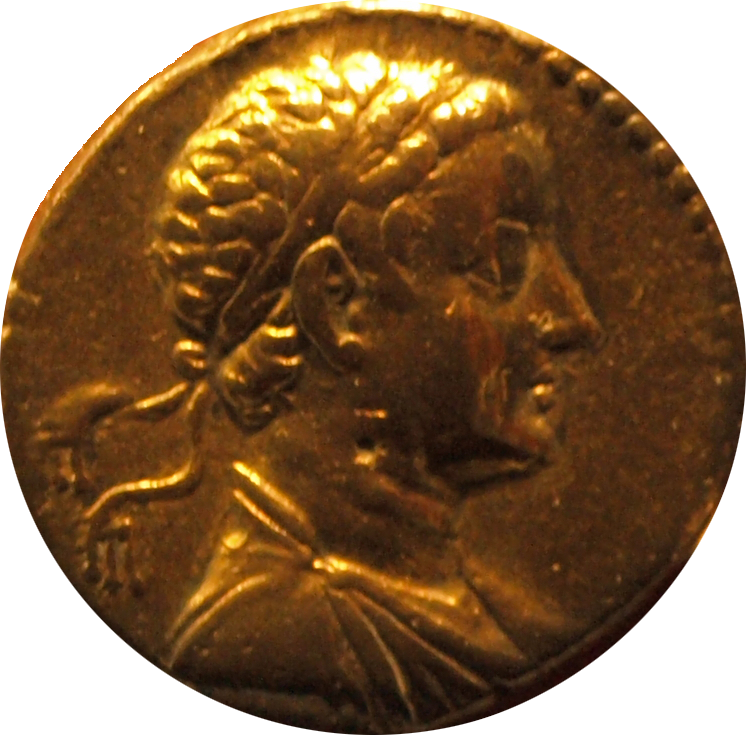 Silver tatradrachm depicting Ptolemy V. On display at the Royal Ontario Museum, Toronto.